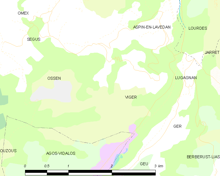 Map of French municipality